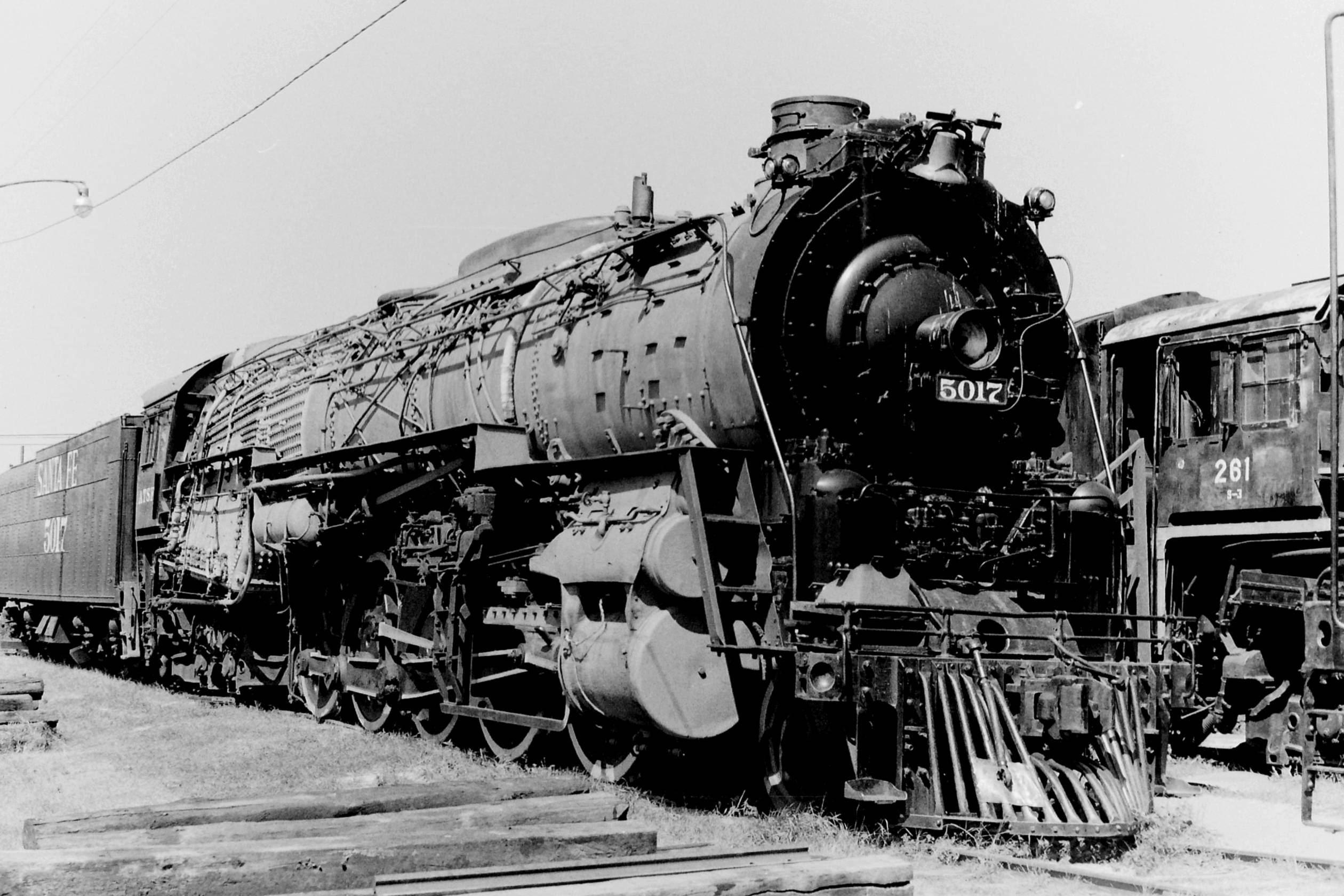 Atchison, Topeka & Santa Fe "5011" "Texas" Class 2-10-4 No.5017 built by Baldwin in 1944, at Green Bay Railroad Museum, 8/70. Baldwin built 1 Class 5000 in 1930, 10 Class 5001 in 1938 and 25 Class 5011's in 1944; all were withdrawn by 1959. These were the heaviest (247.5 tons) and most powerful (T.E. 93,000 lbs) "Texas" type ever built and also had the largest piston thrust (234,000 lbs) of any locomotive.